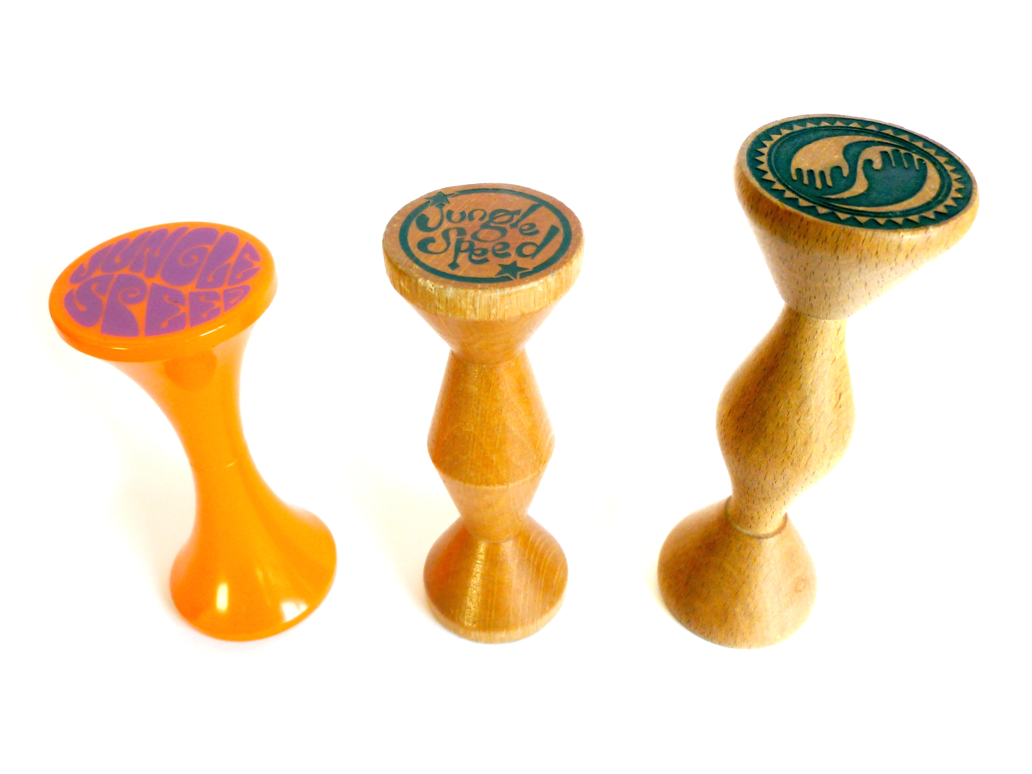 Photography of Jungle Speed totems.